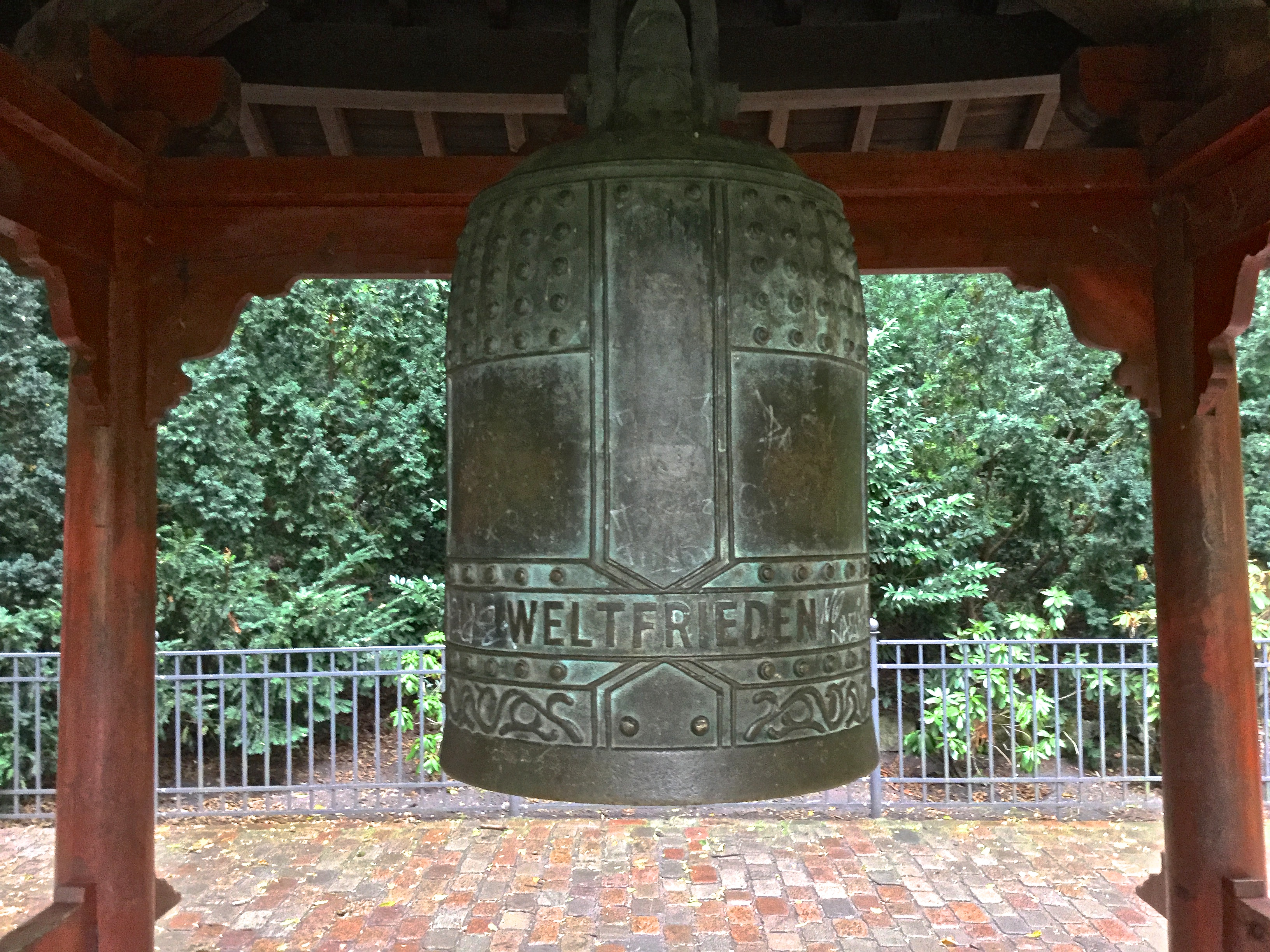 In 1989, a Japanese Pavilion which included a Peace Bell dedicated to unity against nuclear war was constructed in between the two Schuttberge as a gift from Japan to East Berlin.